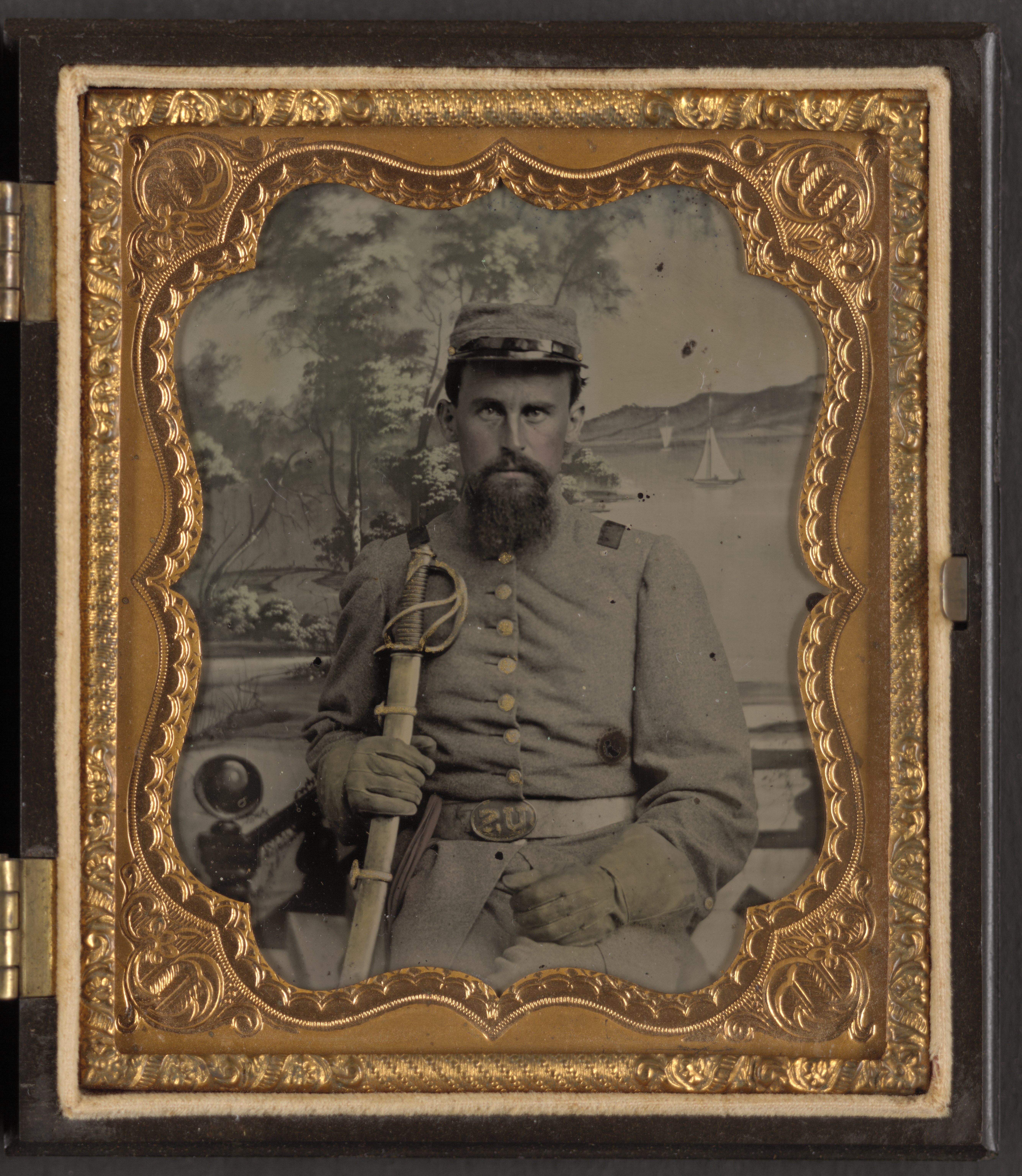 Title: Lieutenant Robert Pryor James of Co. E, 20th North Carolina Infantry Regiment with sword in front of painted backdrop showing sailboats near forested coastline Abstract/medium: 1 photograph : hand-colored ambrotype ; plate 82 x 69 mm (sixth plate format), case 96 x 83 mm.